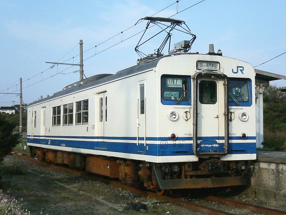 JR West 123 series EMU car KuMoHa 123-6 at Nagato-Motoyama Station on the Onoda Line